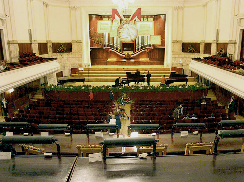 An intermission during a first-round concert of the 15th International Frederick Chopin Piano Competition (Warsaw Philharmonic).